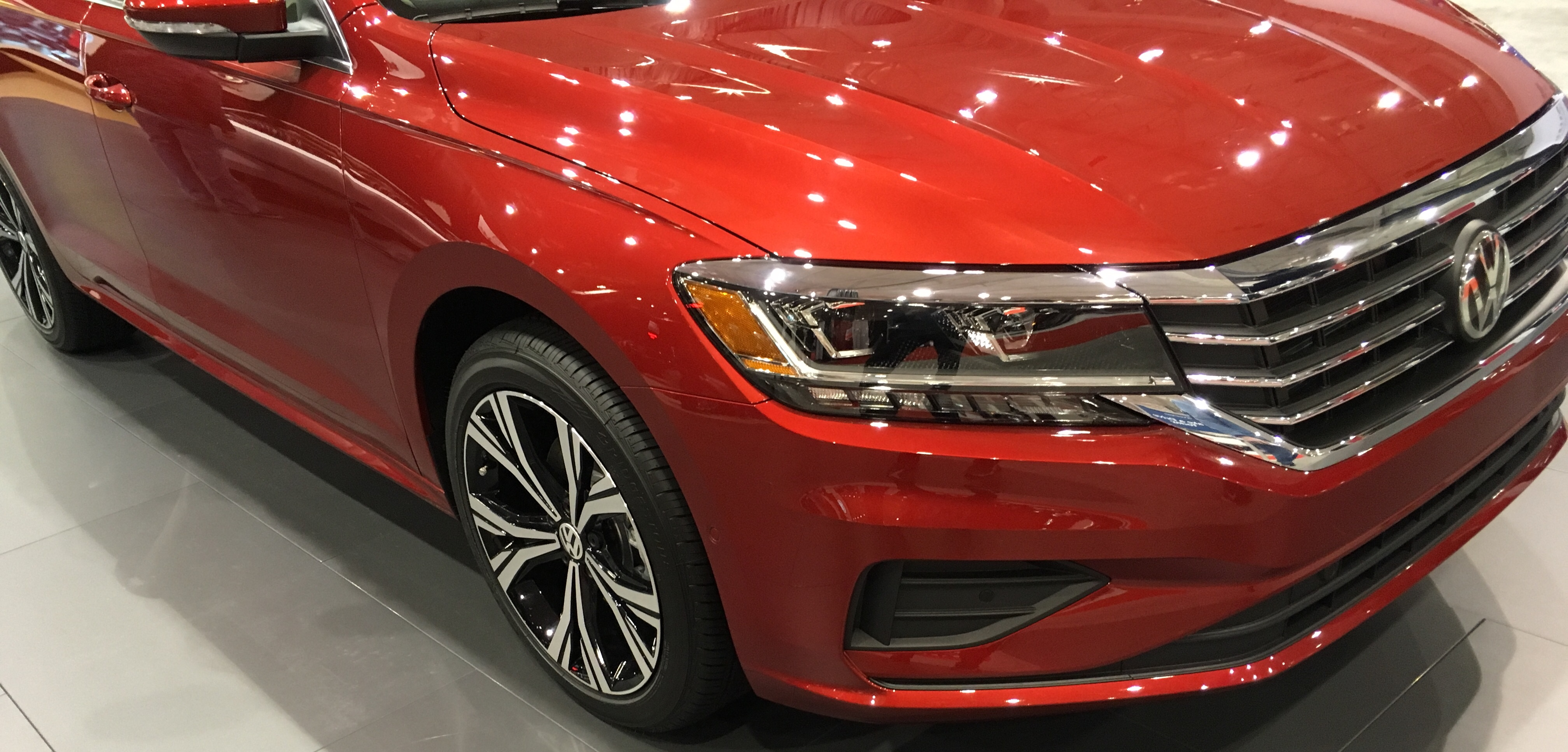 Front three-quarter view